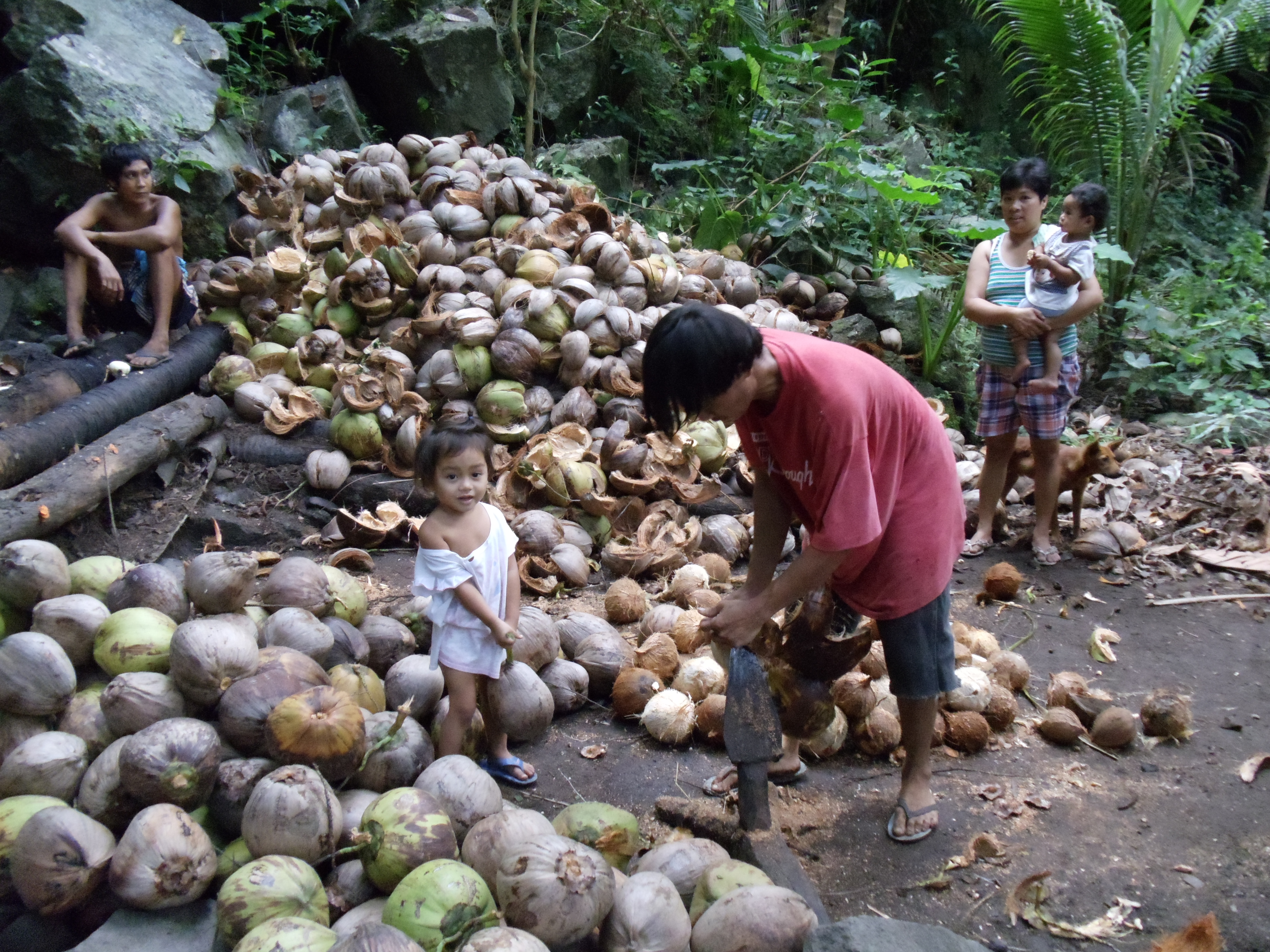 A copra farmer in Banton, Romblon uses a special blade to separate the coconut husk from the shell in preparation for copra making.